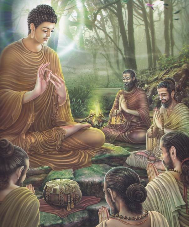 Paintings of Life of Gautama Buddha in Asalha Puja